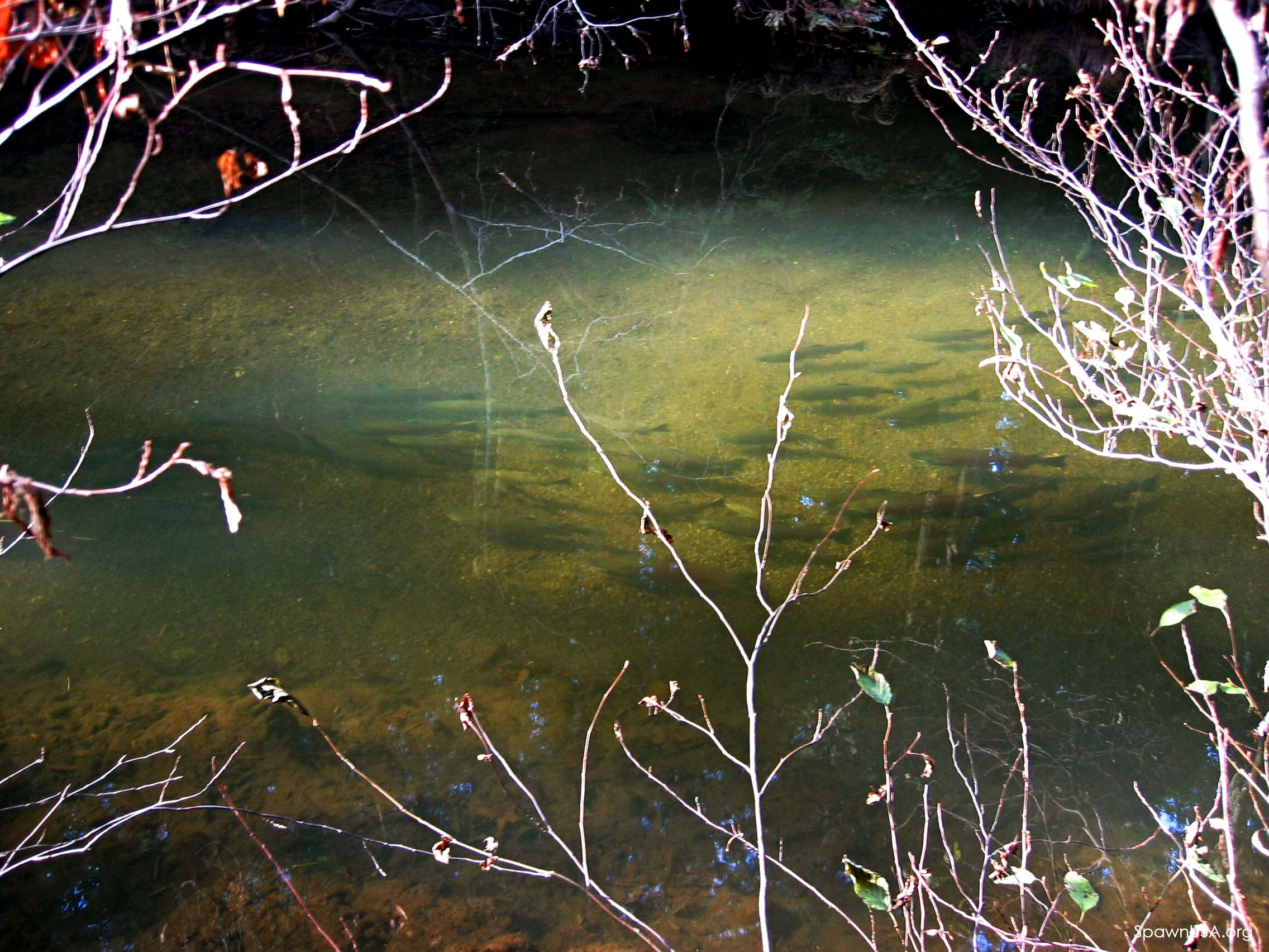 School of endangered Marin County coho salmon in Lagunitas Creek.